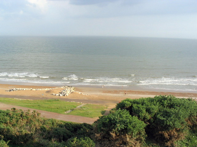 Beach at Highcliffe A view of the beach from the High Cliff.